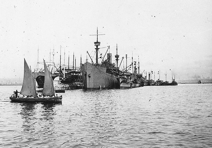 The U.S. Navy destroyer tender USS Bridgeport (ID # 3009) at Brest, France, circa in 1918. USS Wainwright (Destroyer # 62) is tied up to her port side, and an unusual turret steamer is alongside to starboard. The Captain's gig of the French Naval School is under sail in the foreground.